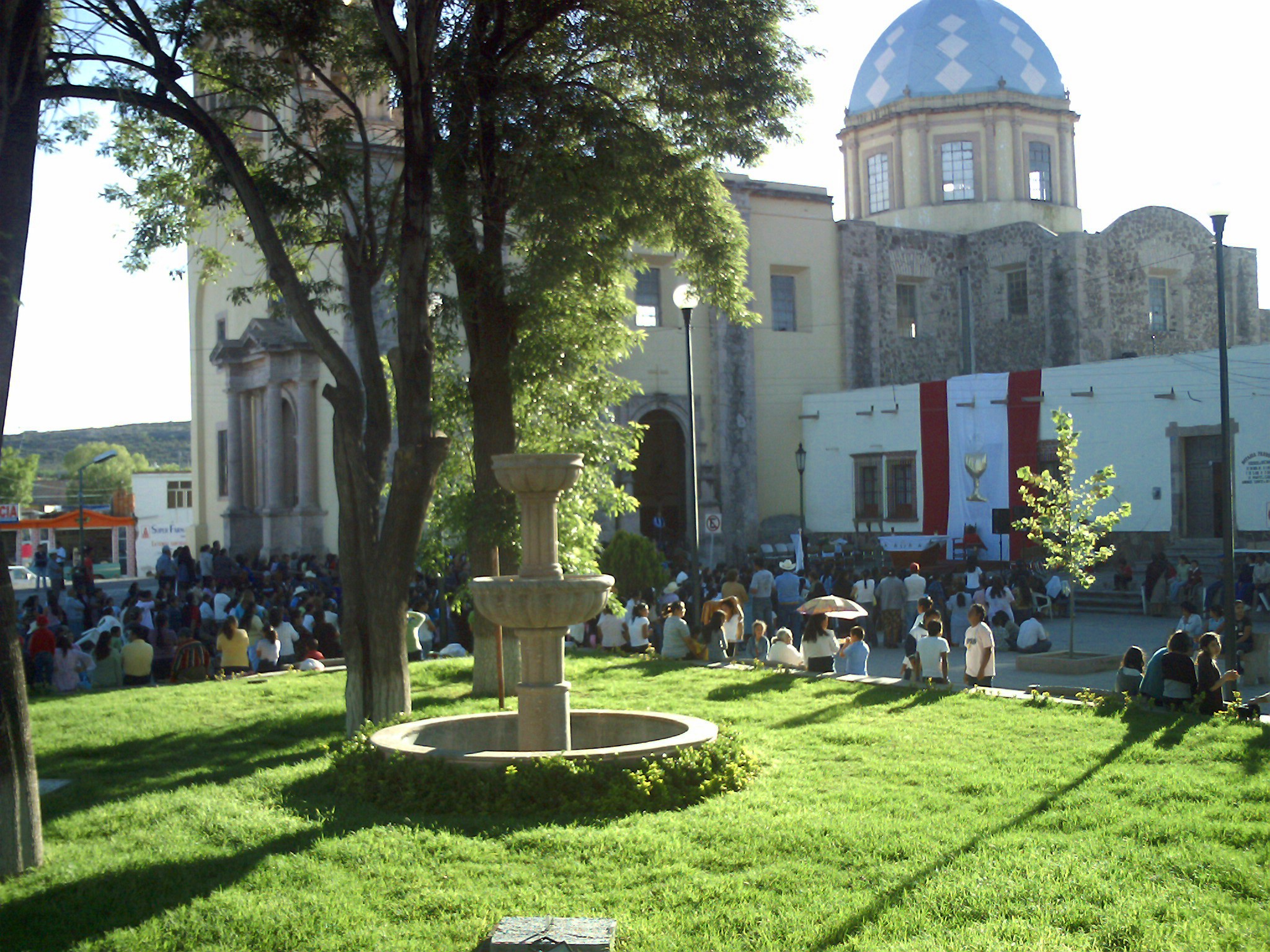 Templo